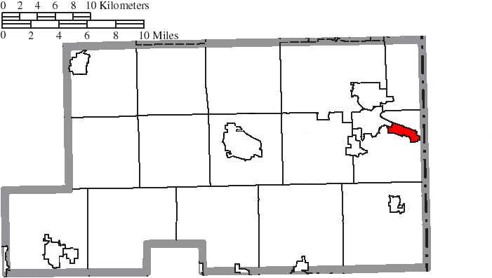 Map of the municipal and township boundaries of Mahoning County, Ohio, United States, as of the 2000 census, with the location of the village of Lowellville highlighted. Township borders are shown only in unincorporated areas in order to differentiate incorporated and unincorporated areas more clearly.